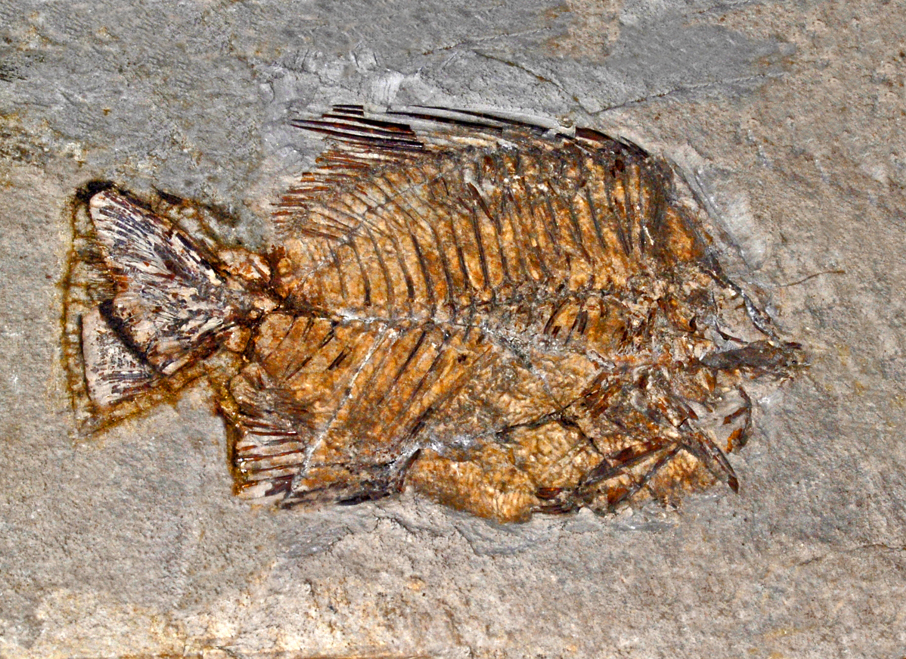 Acanthonemus filamentosus on display at Museo Geologico G. Cappellini, Bologna